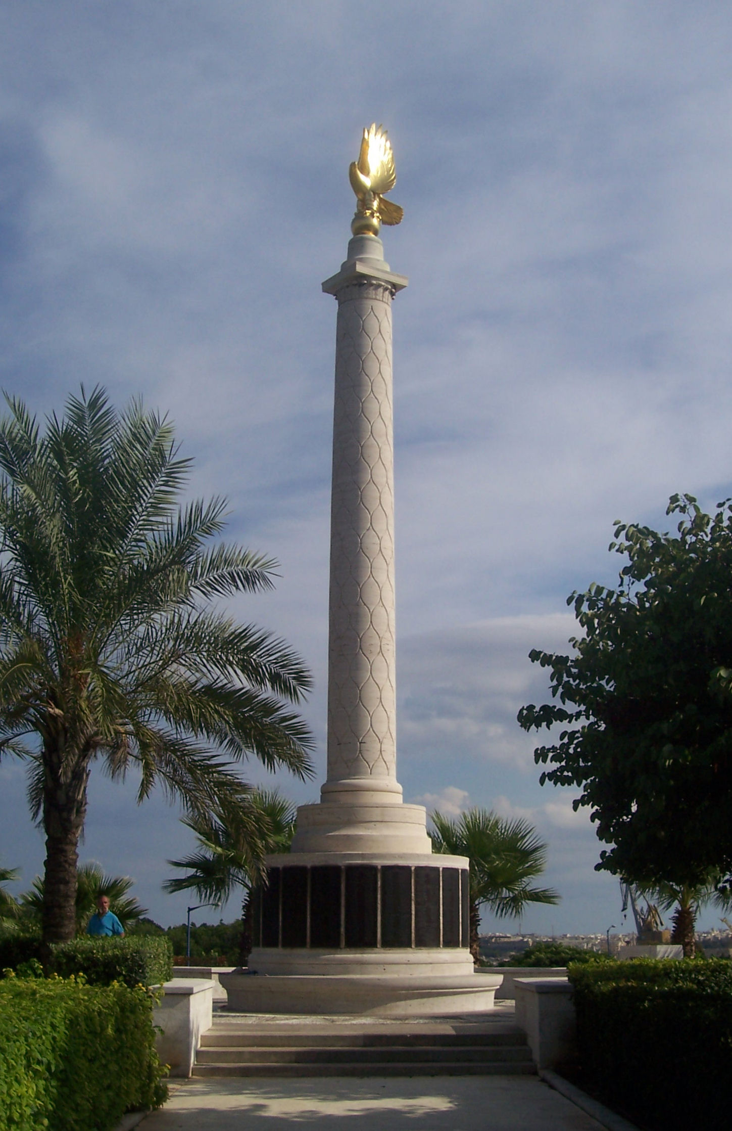 Malta Memorial in Valletta, Malta. Dedicated to the 2,298 Commonwealth aircrew who lost their lives in the various Second World War air battles and engagements around the Mediterranean, and who have no known grave.